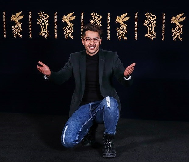 Saed Soheili